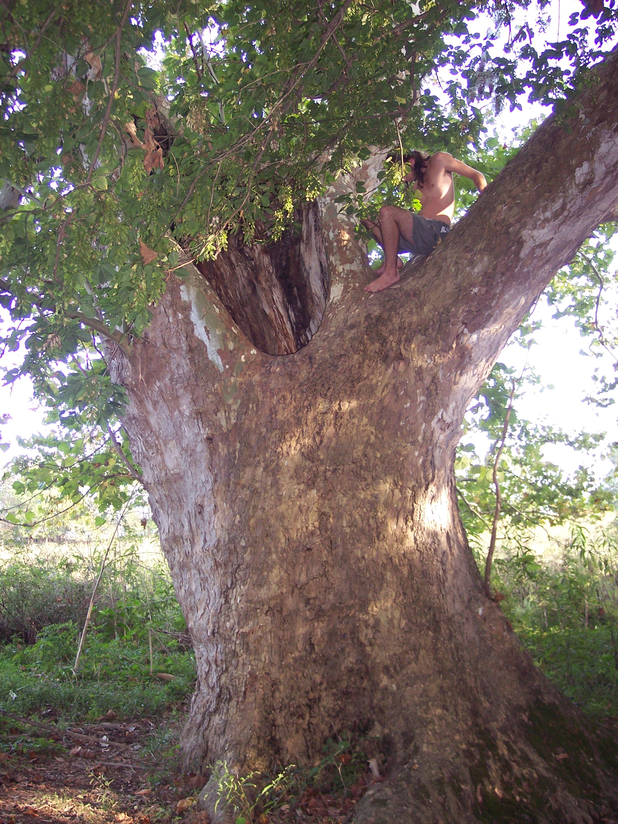 Massive Platanus occidentalis